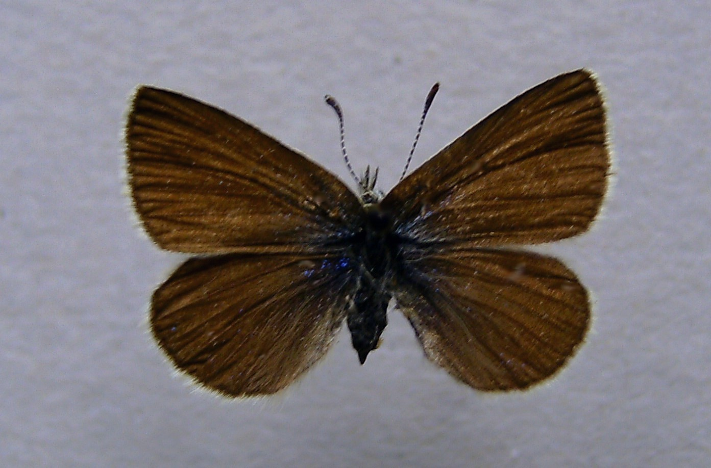 Plebeius orbitulus